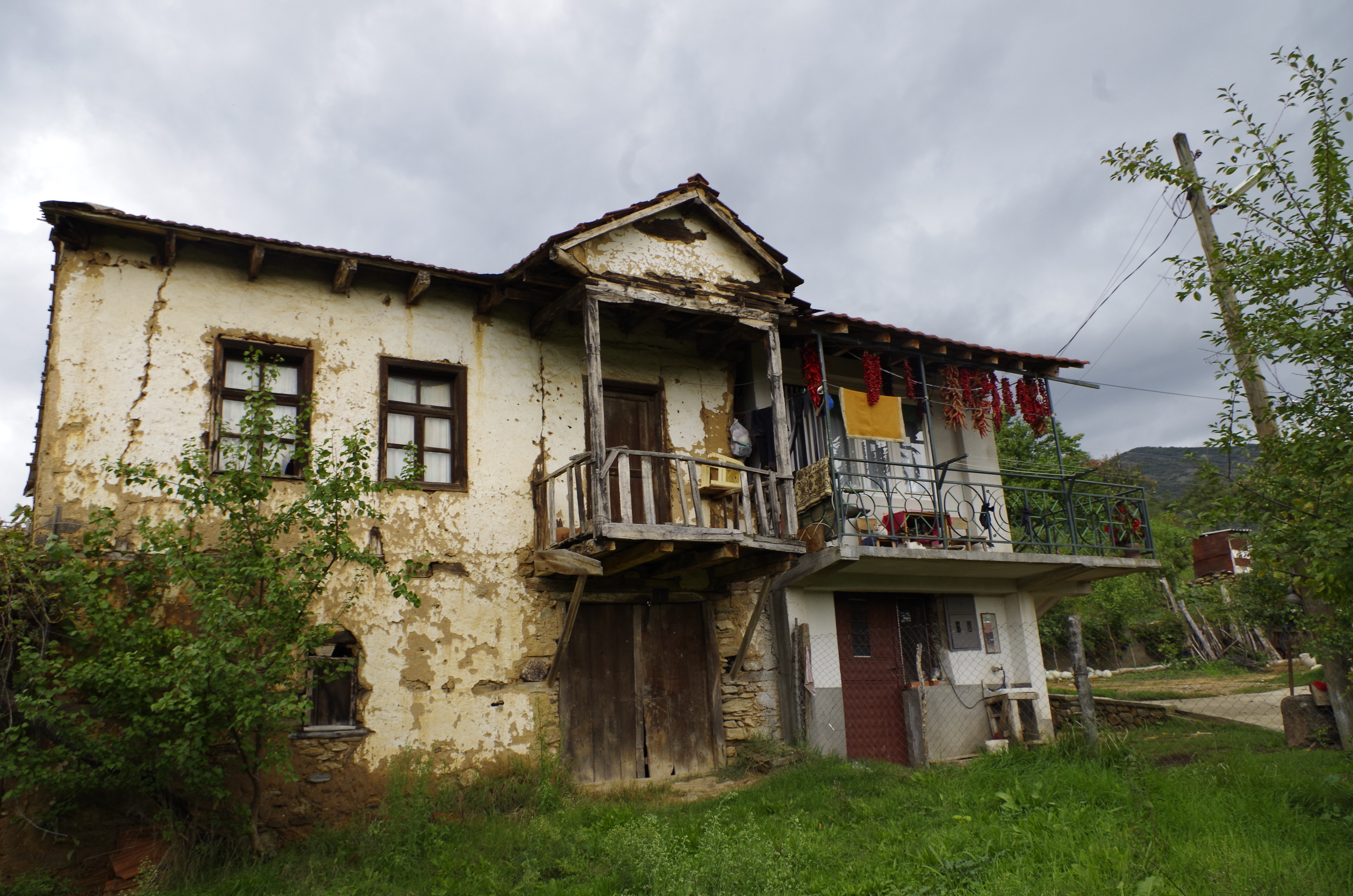 Village of Martolci in Čaška Municipality, Macedonia